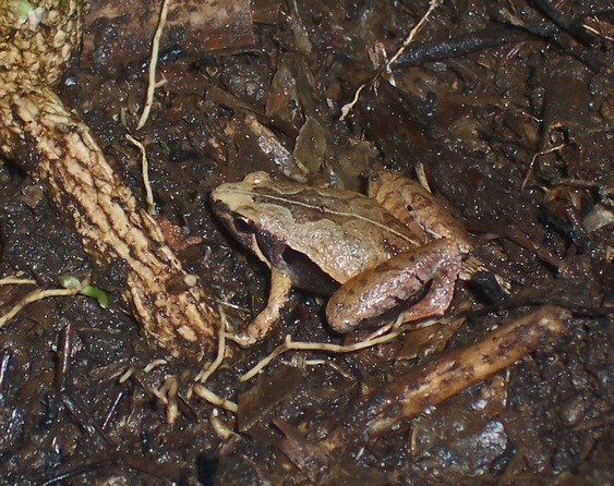 Microhyla achatina from Darmaga, Bogor, West Java, Indonesia